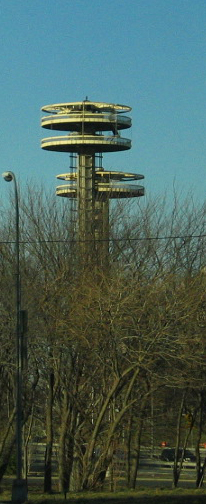 The symbols of New York World's Fair that still exists in Flushing Meadows Park, in Queens, New York